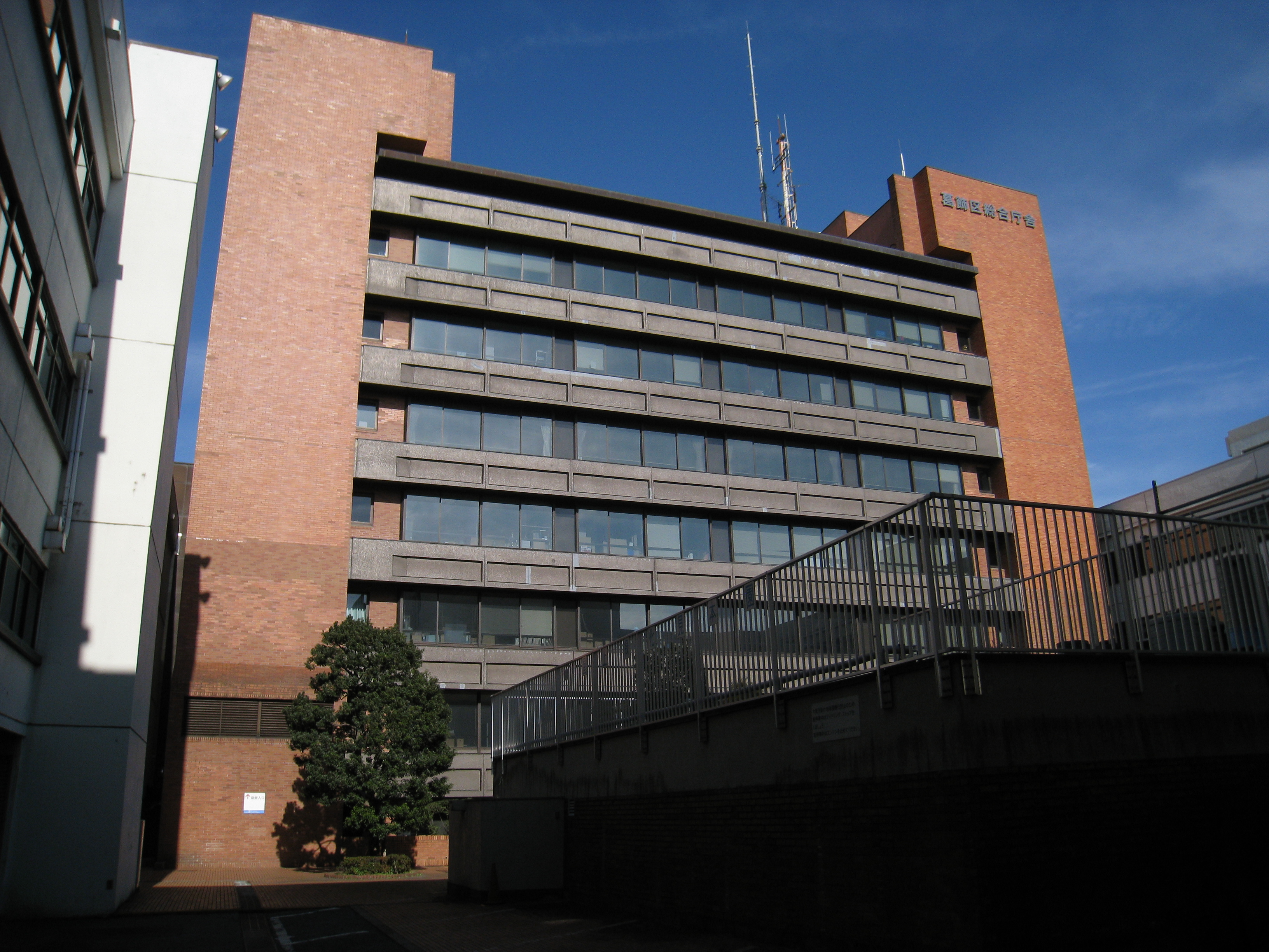 Katsushika New ward office